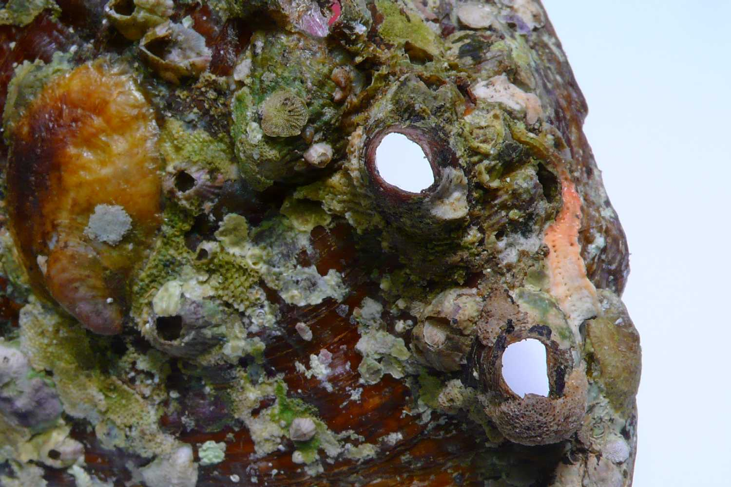 A shell of an abalone which was landed at Toba city in Japan.